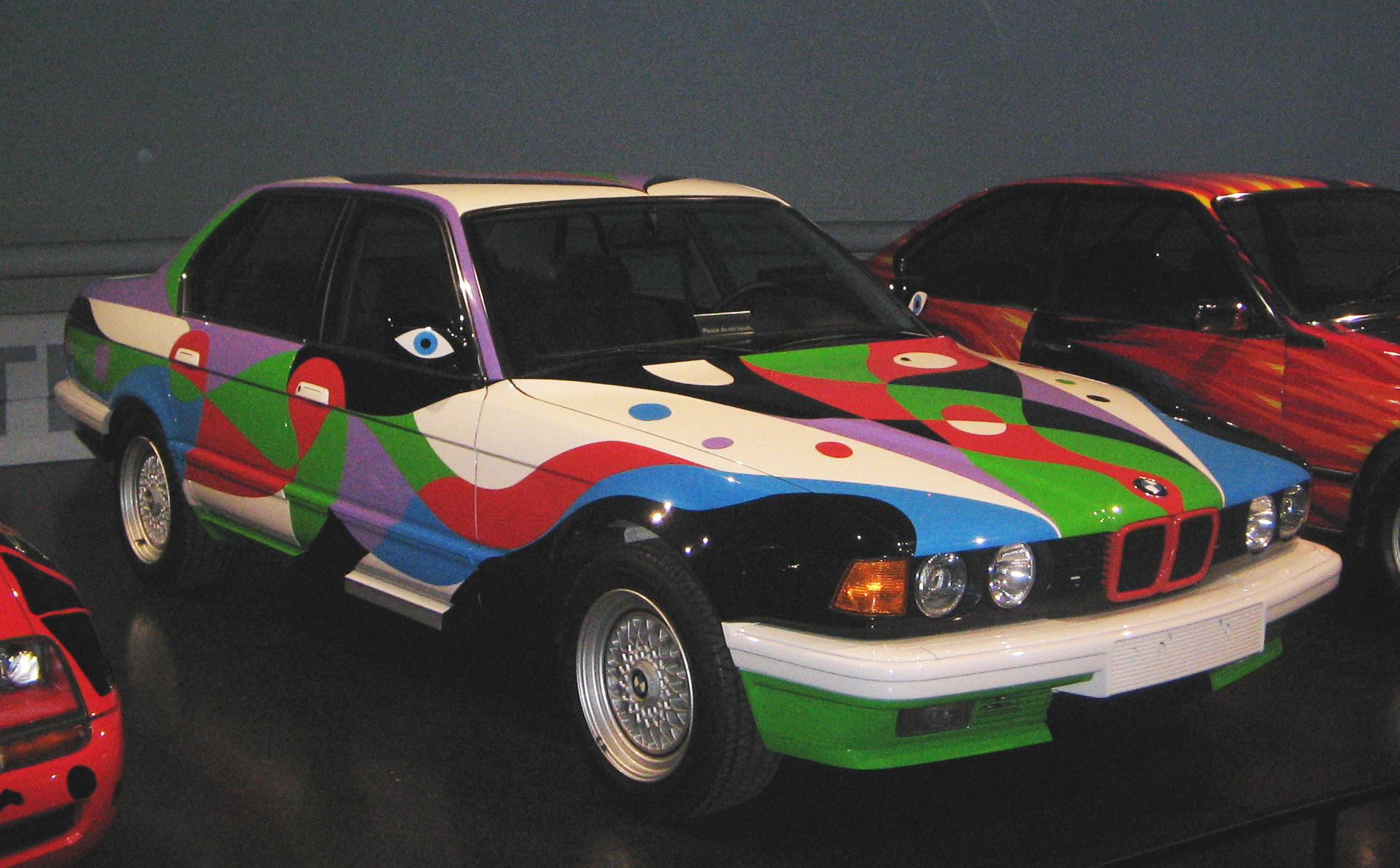 BMW Art Car (BMW 730i) designed by César Manrique at BMW Museum Munich